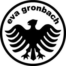 logo of Eva Gronbach